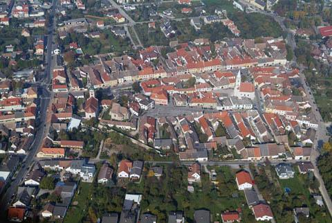 Rust, Austria, aerialphotography